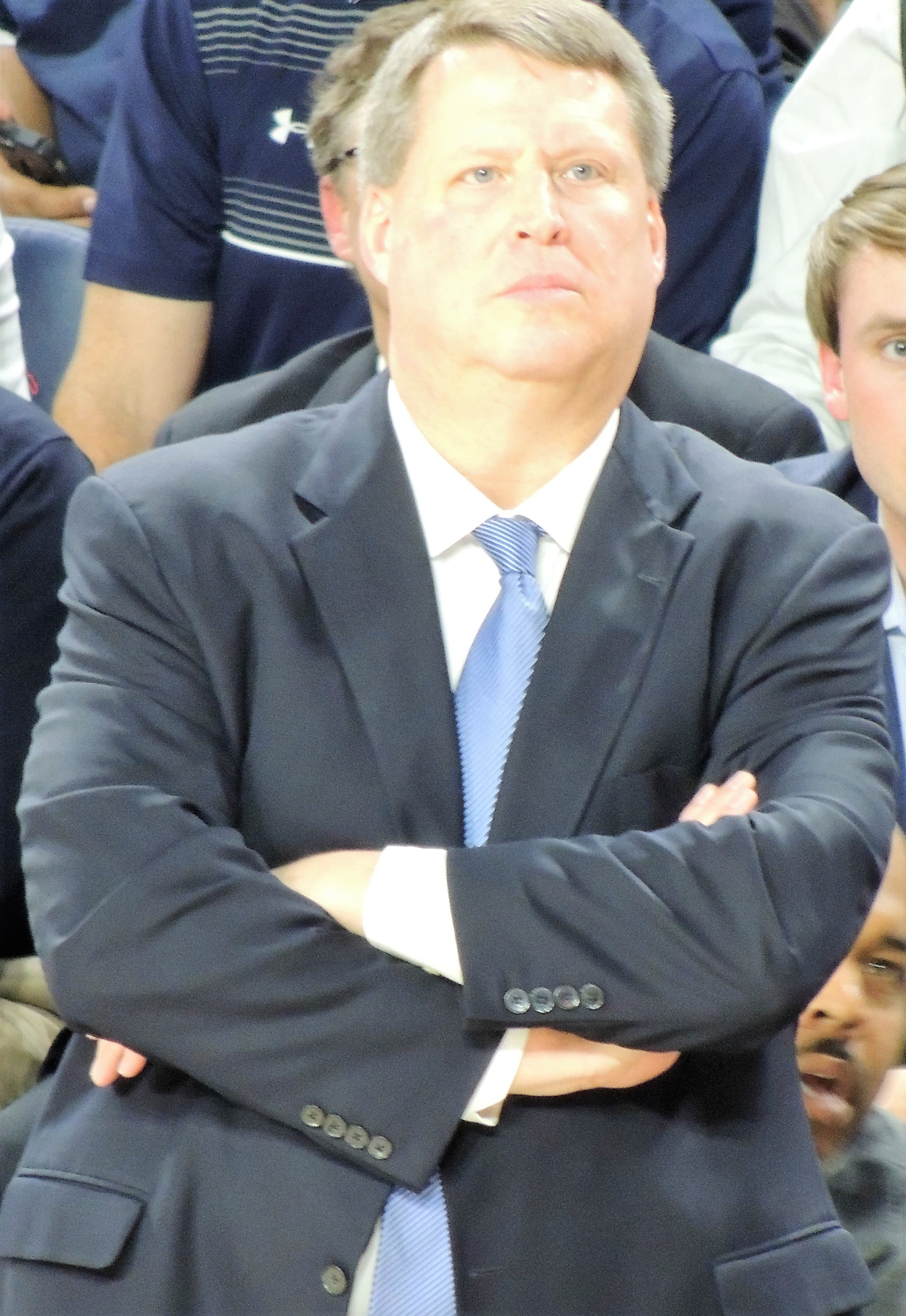 Old Dominion University head basketball coach Jeff Jones at a game in December, 2015